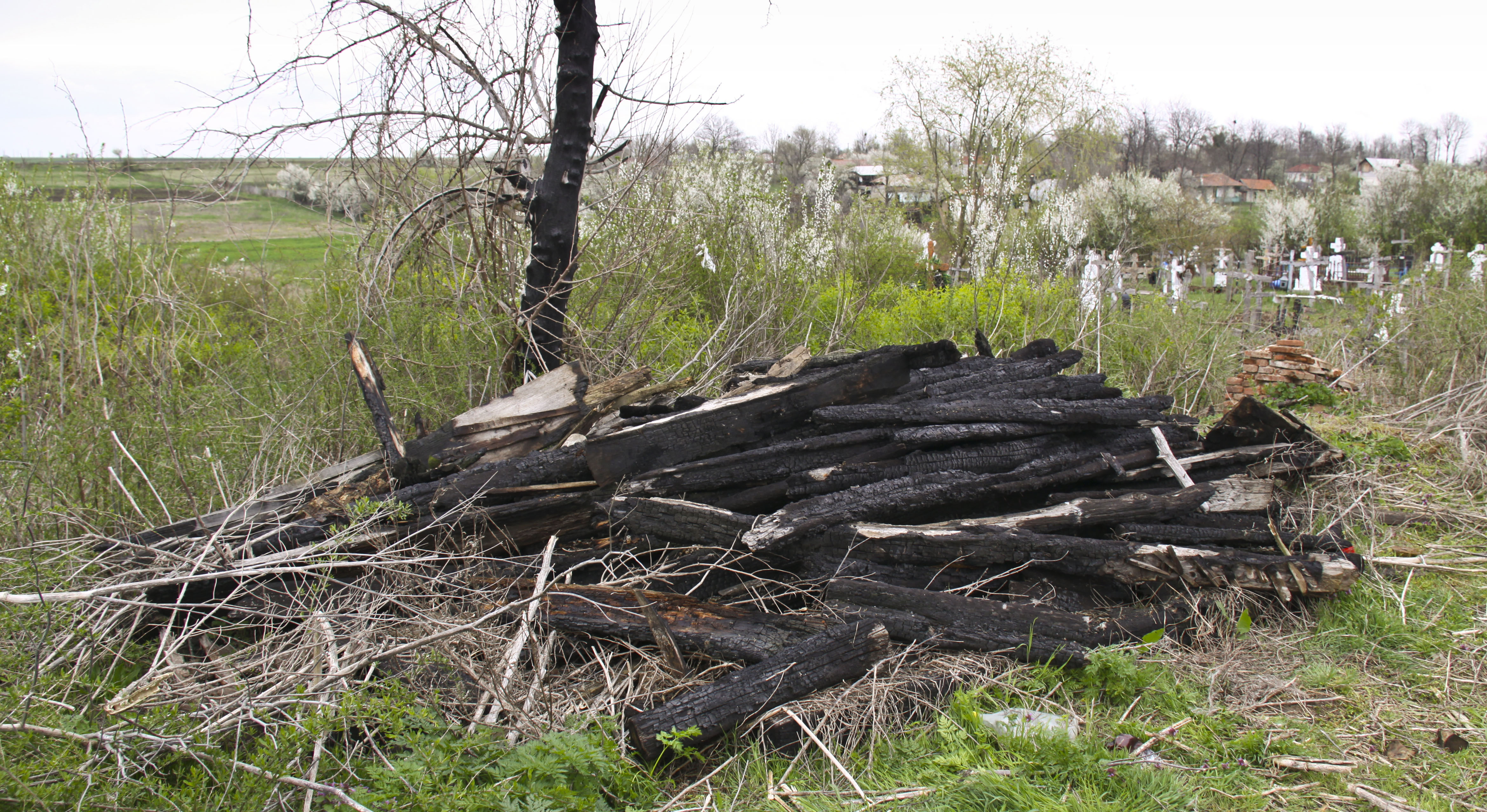 Purcăreni, Argeş county, Romania: the former wooden church.